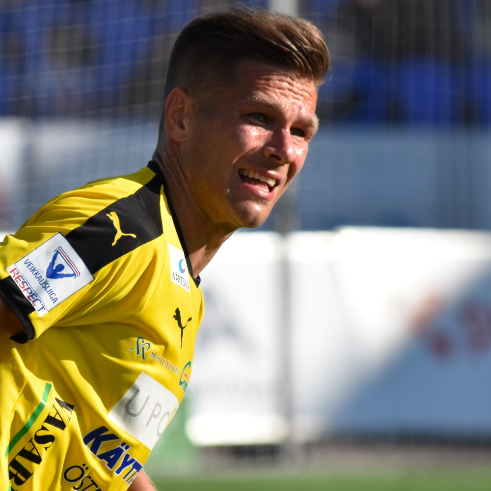 Association football player Sebastian Strandvall (VPS)